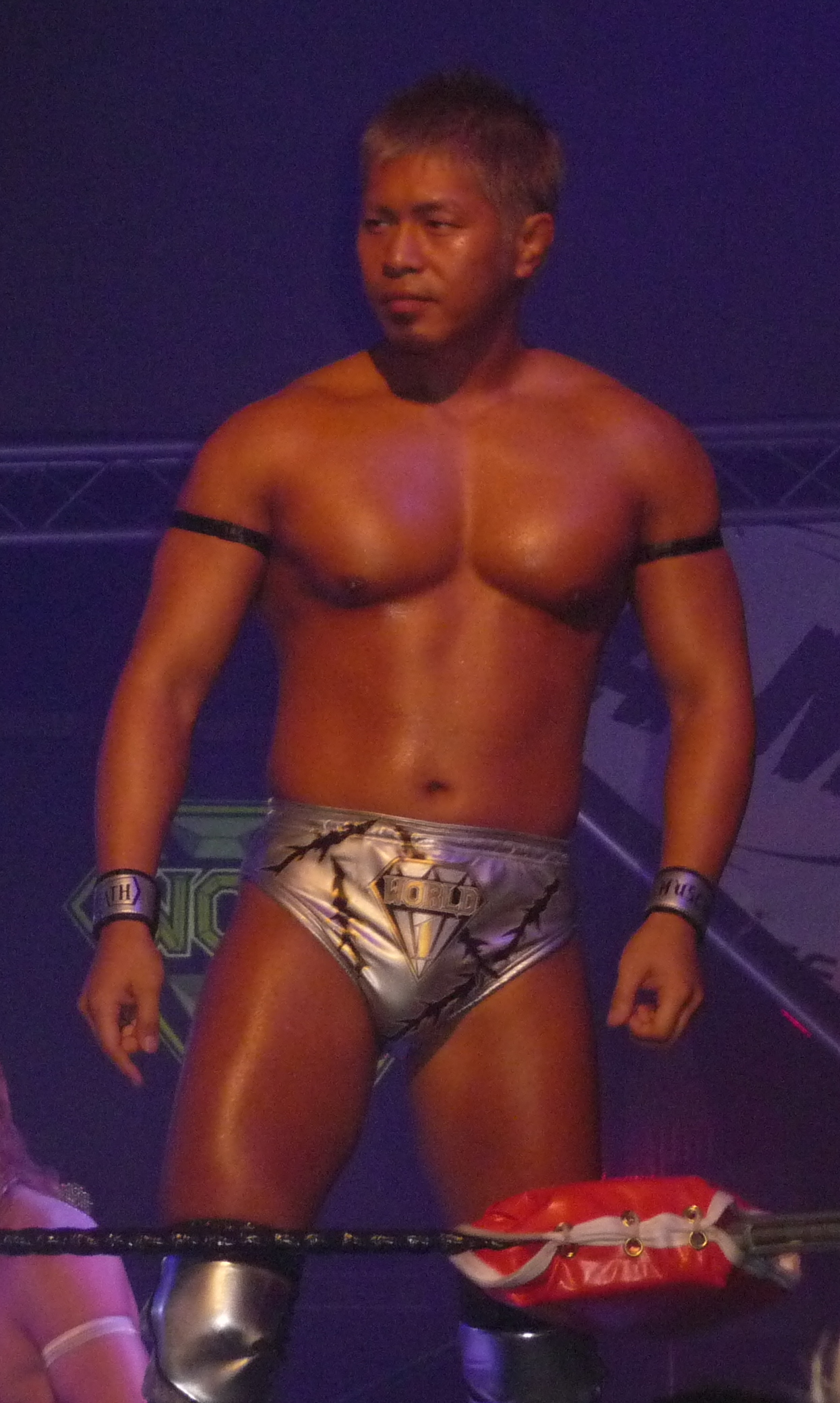 Professional wrestler Naruki Doi at a Dragon Gate show in Oxford, England in November 2009.